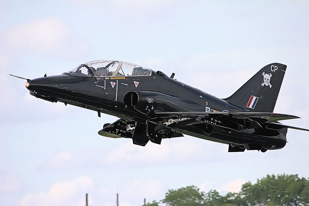 This Hawk played the part of an aggressor during the RAF Role Demo.